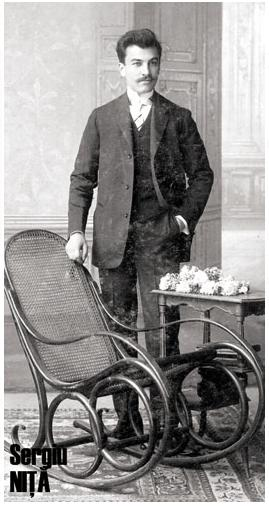 Sergiu Niţă (1883-1940)